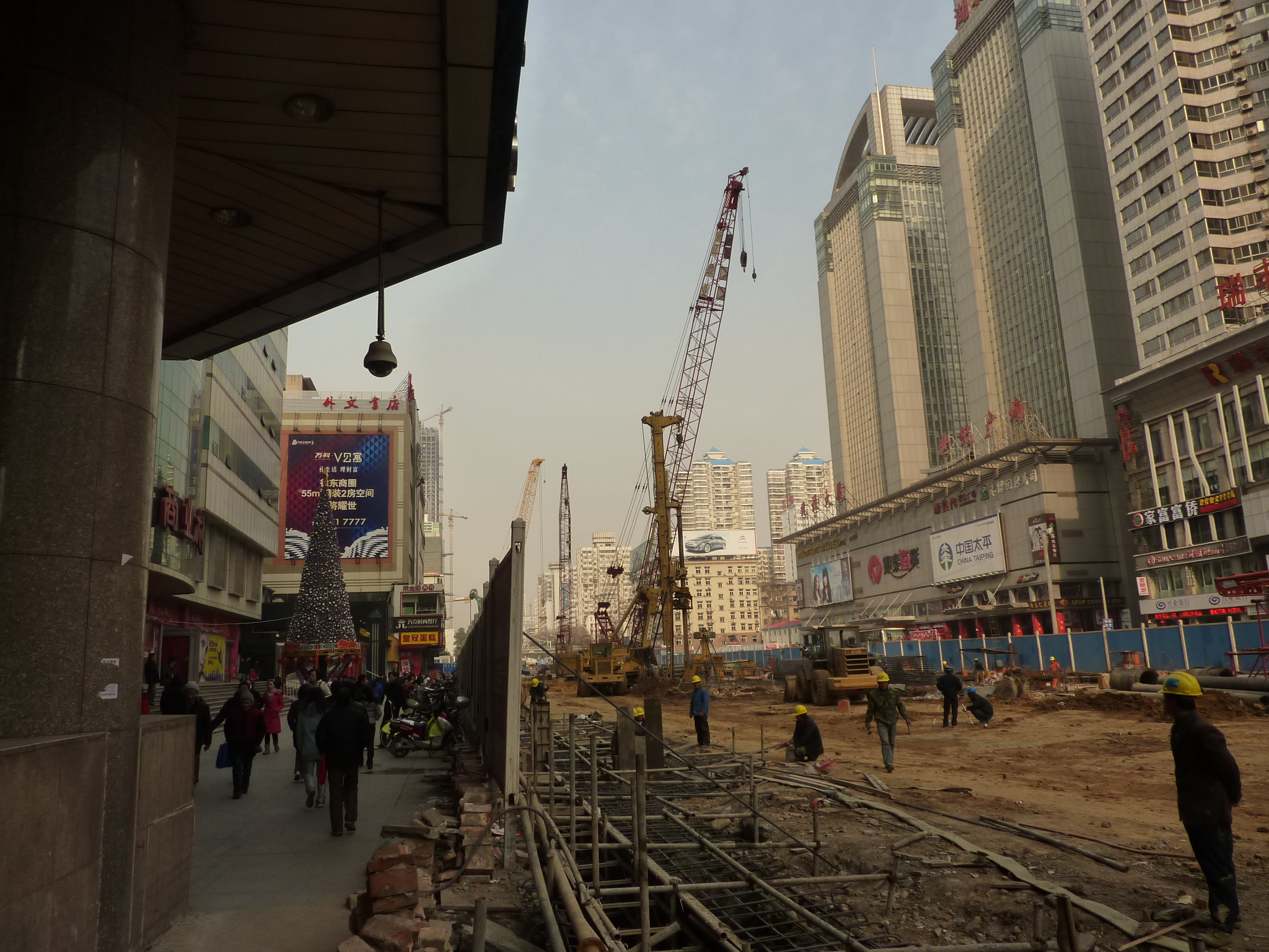 Zhongnan St in Wuhan runs between Wuluo St in the south and Hongsgan Square in the north. It is a busy, somewhat upscale, commercial street. One notable retailer there is the Foreign Languages Book Store (外文书店), on the western side of the street. Currently, Zhongnan Lu station of the future Line 2 and Line 4 of Wuhan Metro is being built in the middle of the street.